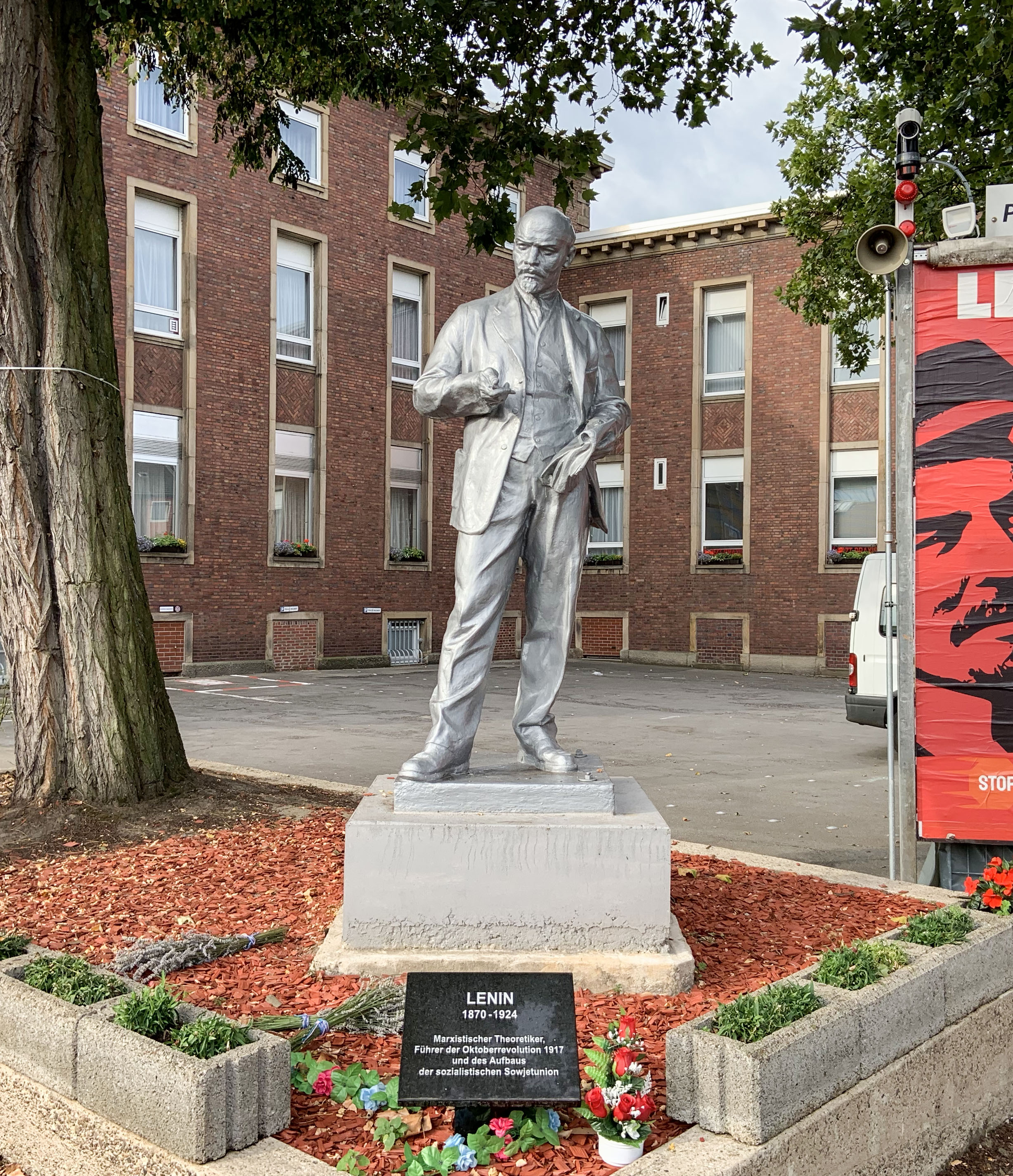 Statue of Vladimir Lenin erected in June 2020 outside HQ of Marxist-Leninist Party of Germany, Gelsenkirchen